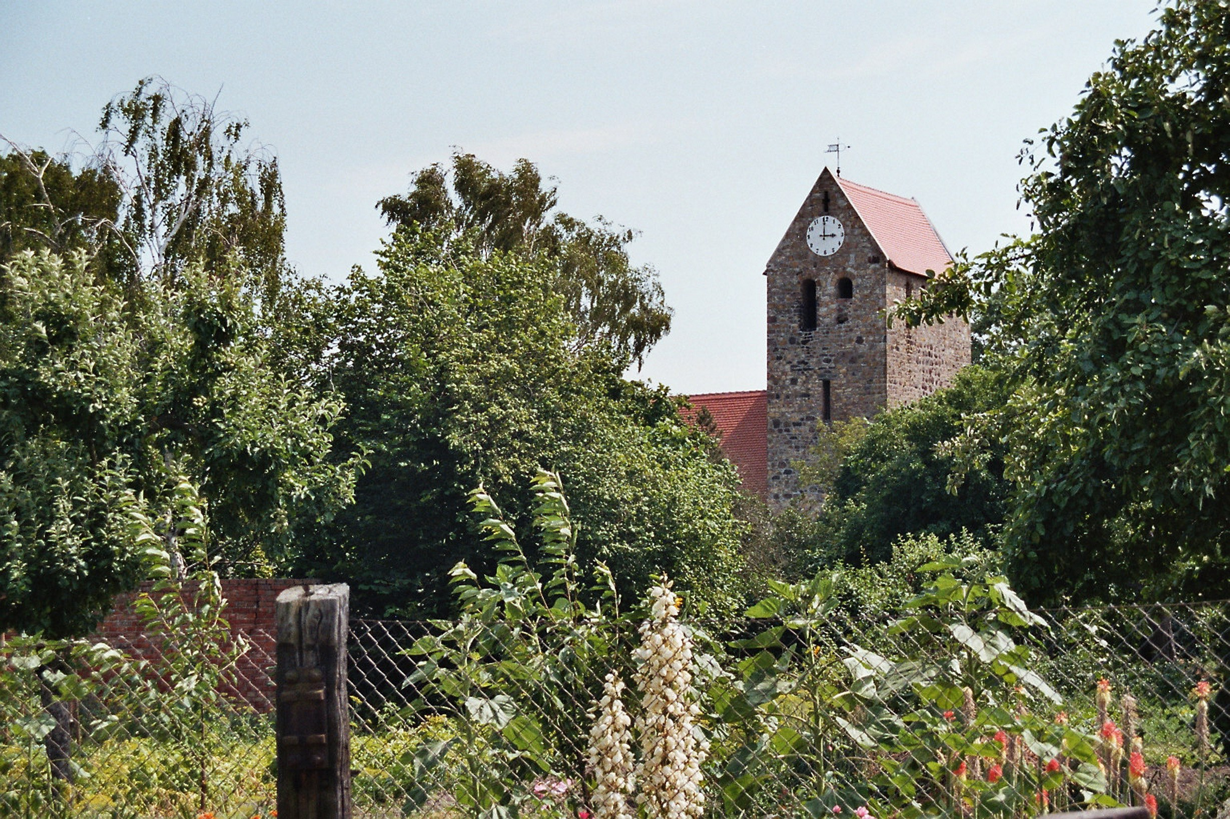 Zeddenick (Möckern), the village church This is a photograph of an architectural monument. 10175